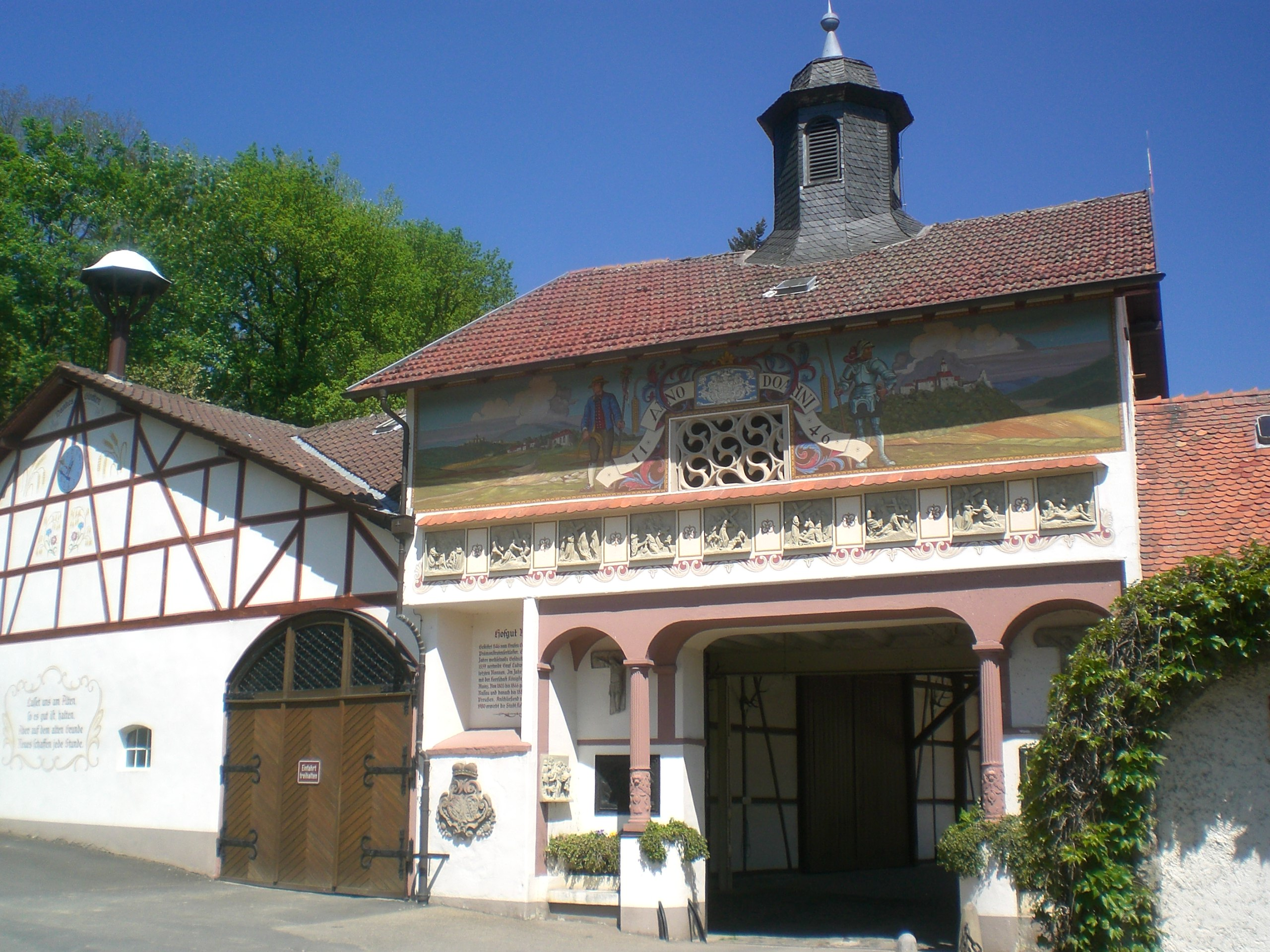 the historical Hofgut Retters (built anno 1146, gate renewed in 1936) in Kelkheim (Taunus)